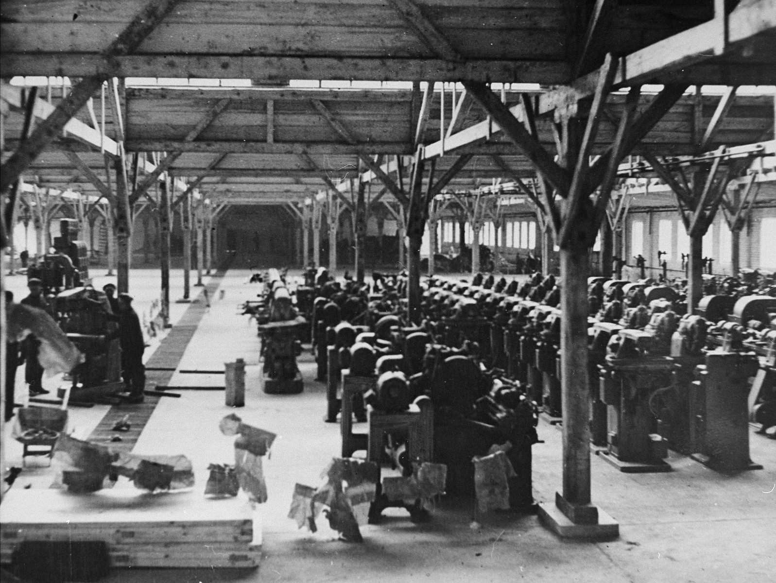 Prisoners at forced labor on the assembly line of the Gustloff Werke II munitions plant in the Buchenwald concentration camp.